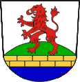 Coat of Arms of Seebergen